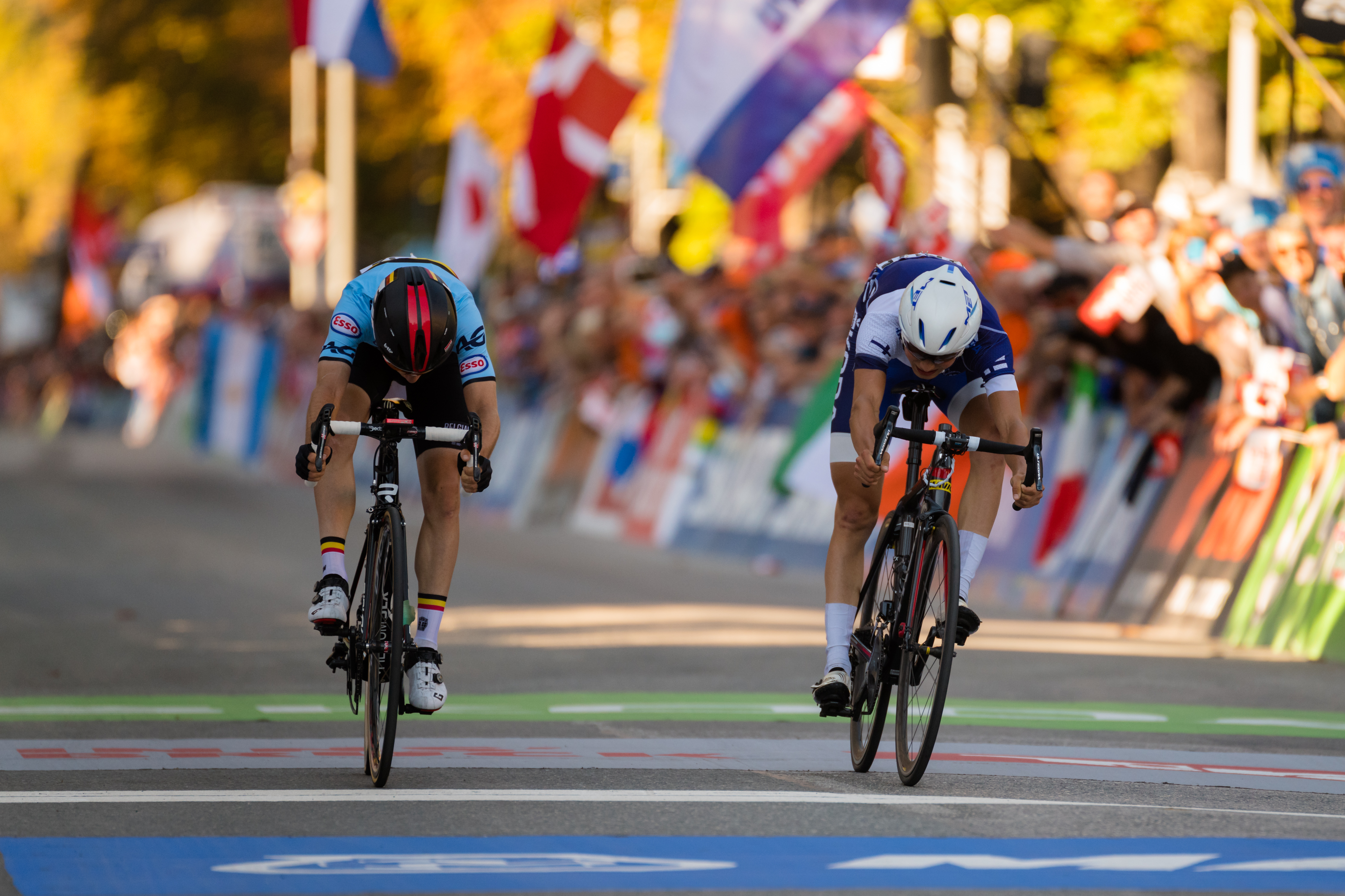 2018 UCI Road World Championships Innsbruck/Tirol Men under 23 Road Racel. Picture shows: Bjorg Lambrecht of Belgium wins the sprint for silver against Jaakko Hanninen of Finland